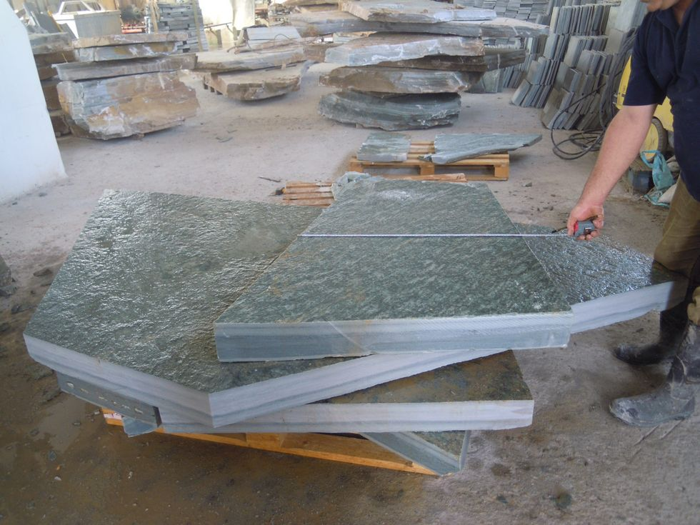 Natural Slate stones of Karystos, Evia, Greece